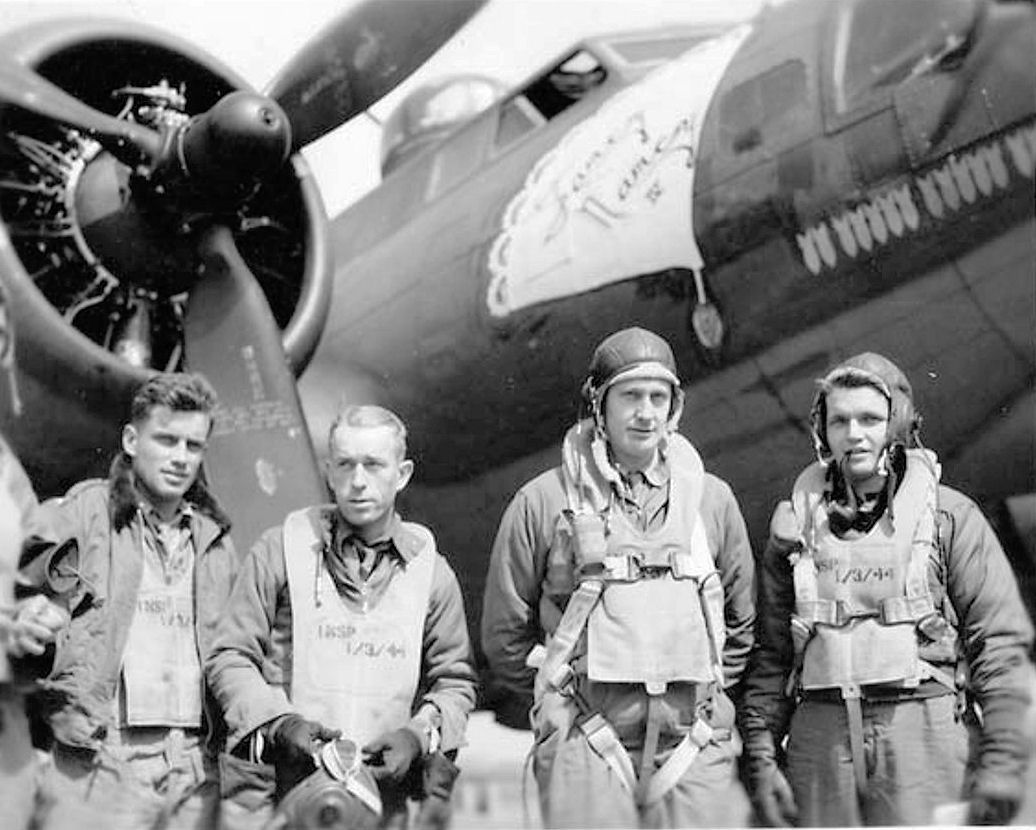 Boeing B-17 42-31662 SC-B 'Fancy Nancy IV' and crew. 612th BS 401st BG, 8th AF, RAF Deenethorpe.